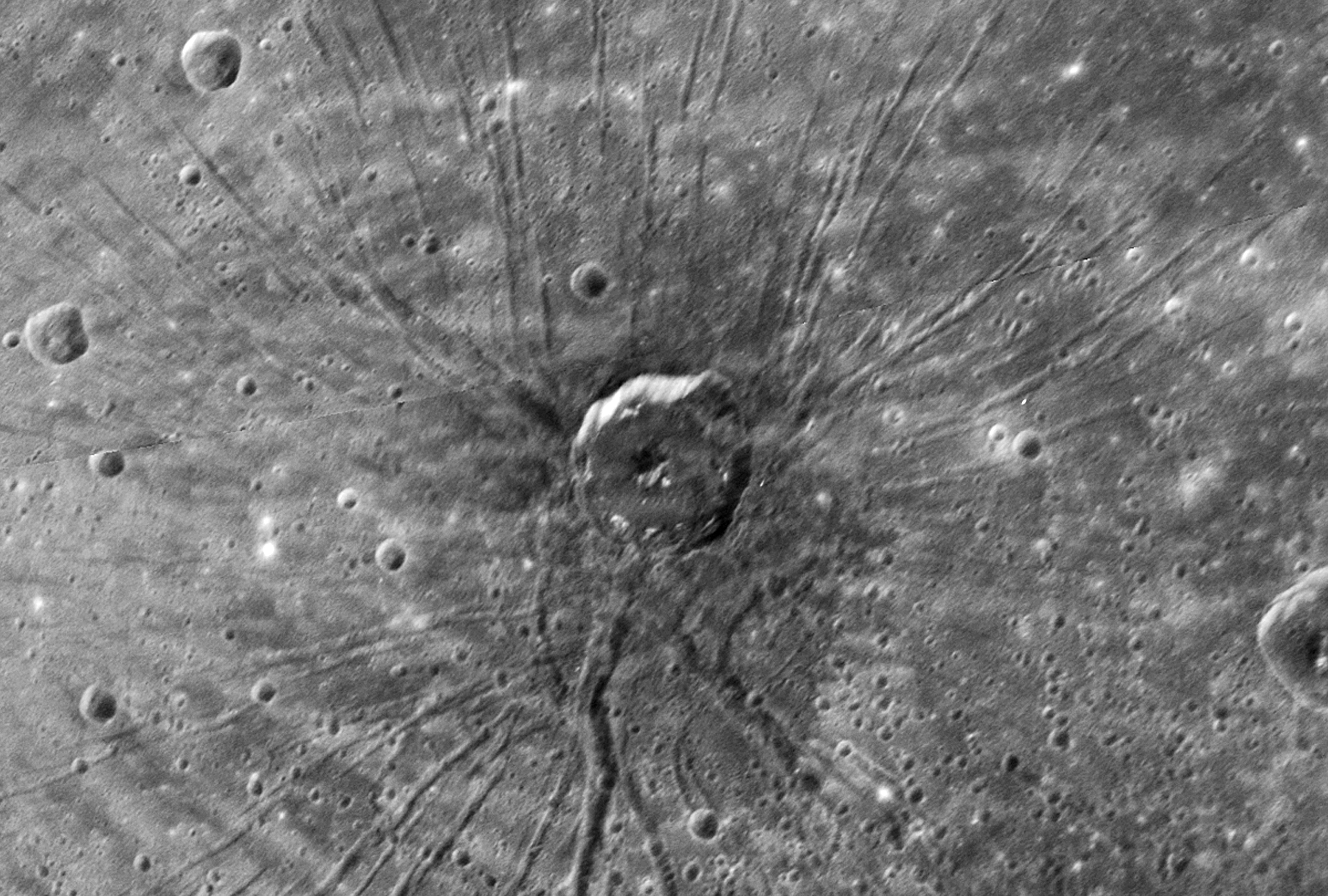 Spider crater (Apollodorus) on Planet Mercury. The Narrow Angle Camera of the Mercury Dual Imaging System (MDIS) on the MESSENGER spacecraft obtained high-resolution images of the floor of the Caloris basin on January 14, 2008. Near the center of the basin, an area unseen by Mariner 10, this remarkable feature – nicknamed “the spider” by the science team – was revealed. A set of troughs radiates outward in a geometry unlike anything seen by Mariner 10. The radial troughs are interpreted to be the result of extension (breaking apart) of the floor materials that filled the Caloris basin after its formation. Other troughs near the center form a polygonal pattern. This type of polygonal pattern of troughs is also seen along the interior margin of the Caloris basin. An impact crater about 40 km (~25 miles) in diameter appears to be centered on “the spider.” The straight-line segments of the crater walls may have been influenced by preexisting extensional troughs, but some of the troughs may have formed at the time that the crater was excavated. (Original text from NASA)